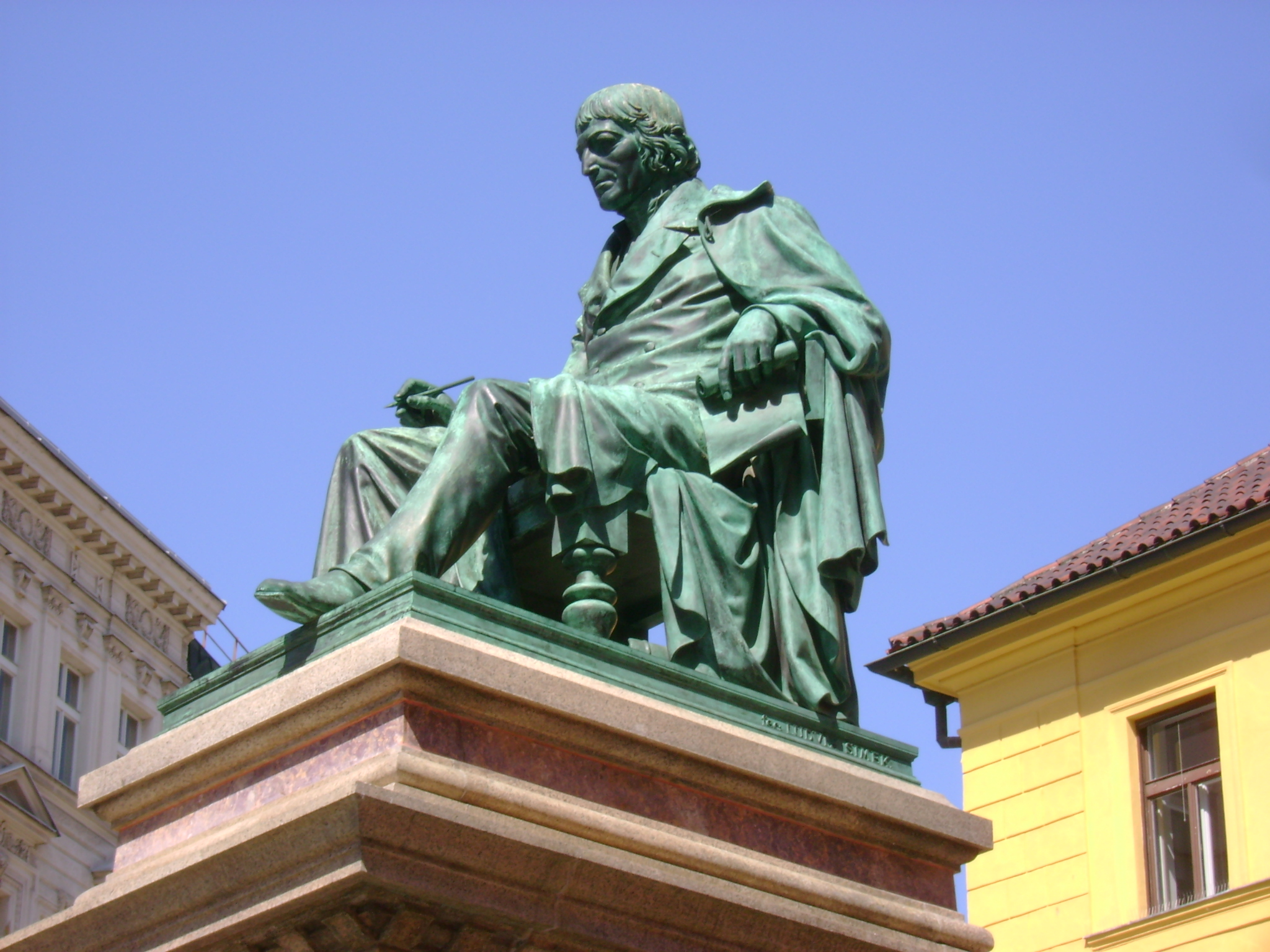 Statue of Josef Jungmann (1773–1847), Czech linguist. It is located on Jungmann Square (Czech: Jungmannovo náměstí) in Prague, Czech Republic.